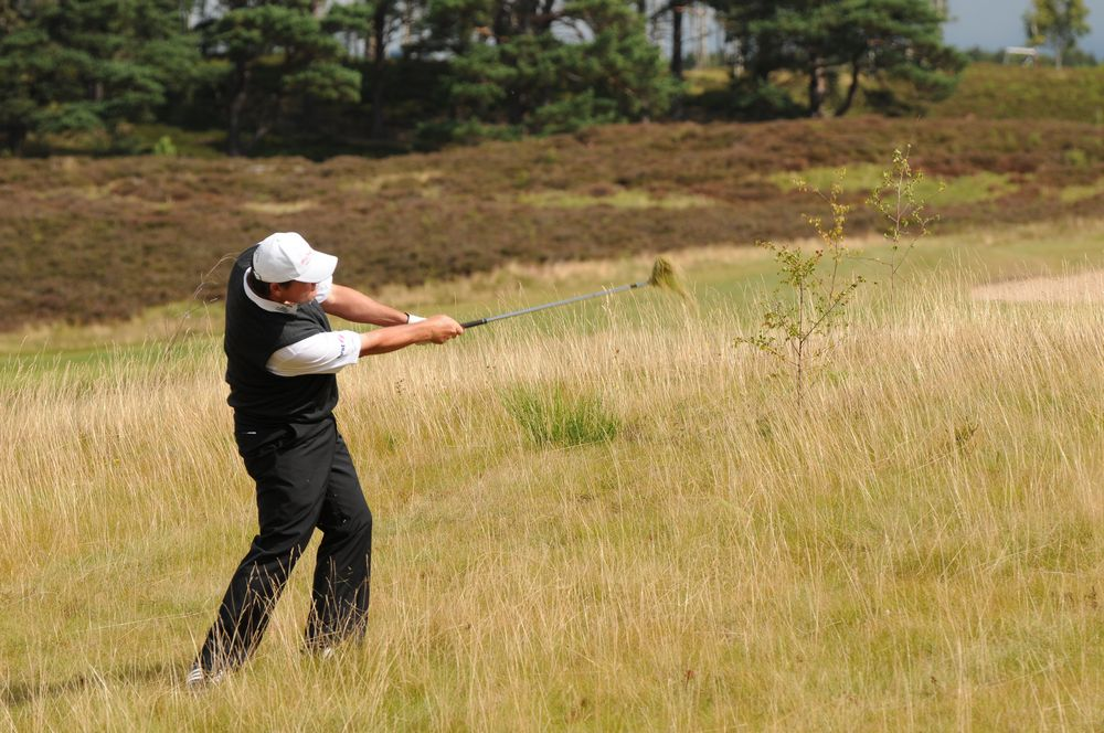 Paul lawrie at the PGA European Tour Scottish Hydro Challenge at the Spey Valley Golf Course in Aviemore. Photo by Aaron Sneddon, Nikon d300